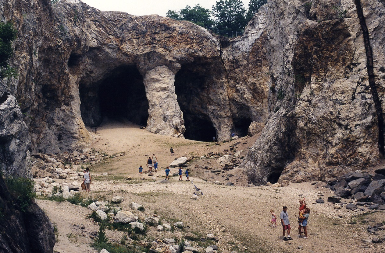 Entrance to Ruggles Mine.jpg